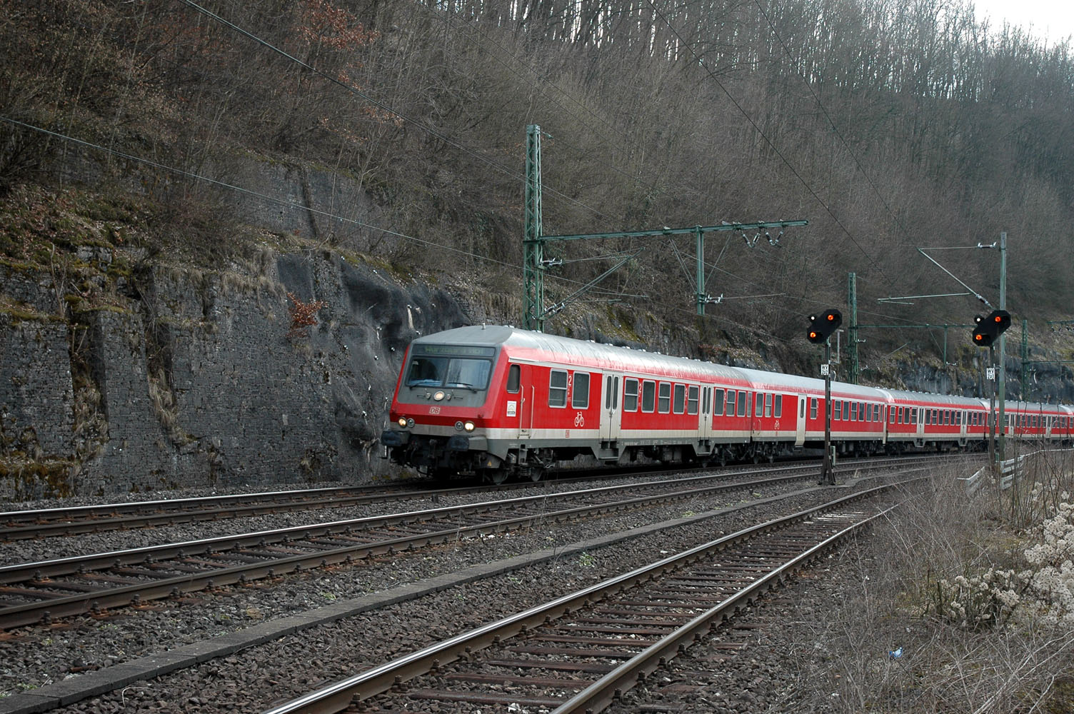 RegionalExpress train from Stuttgart to Würzburg approaching Züttlingen, train number RE 4958.